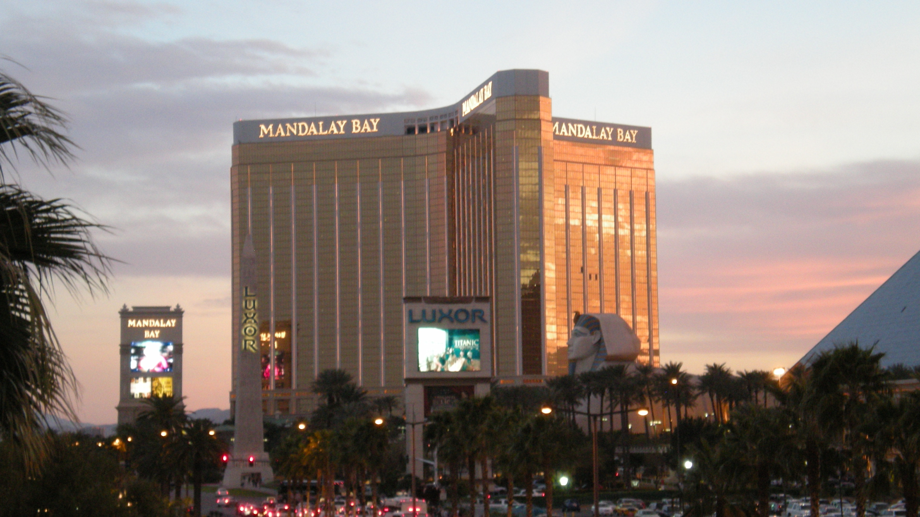 Mandalay Bay